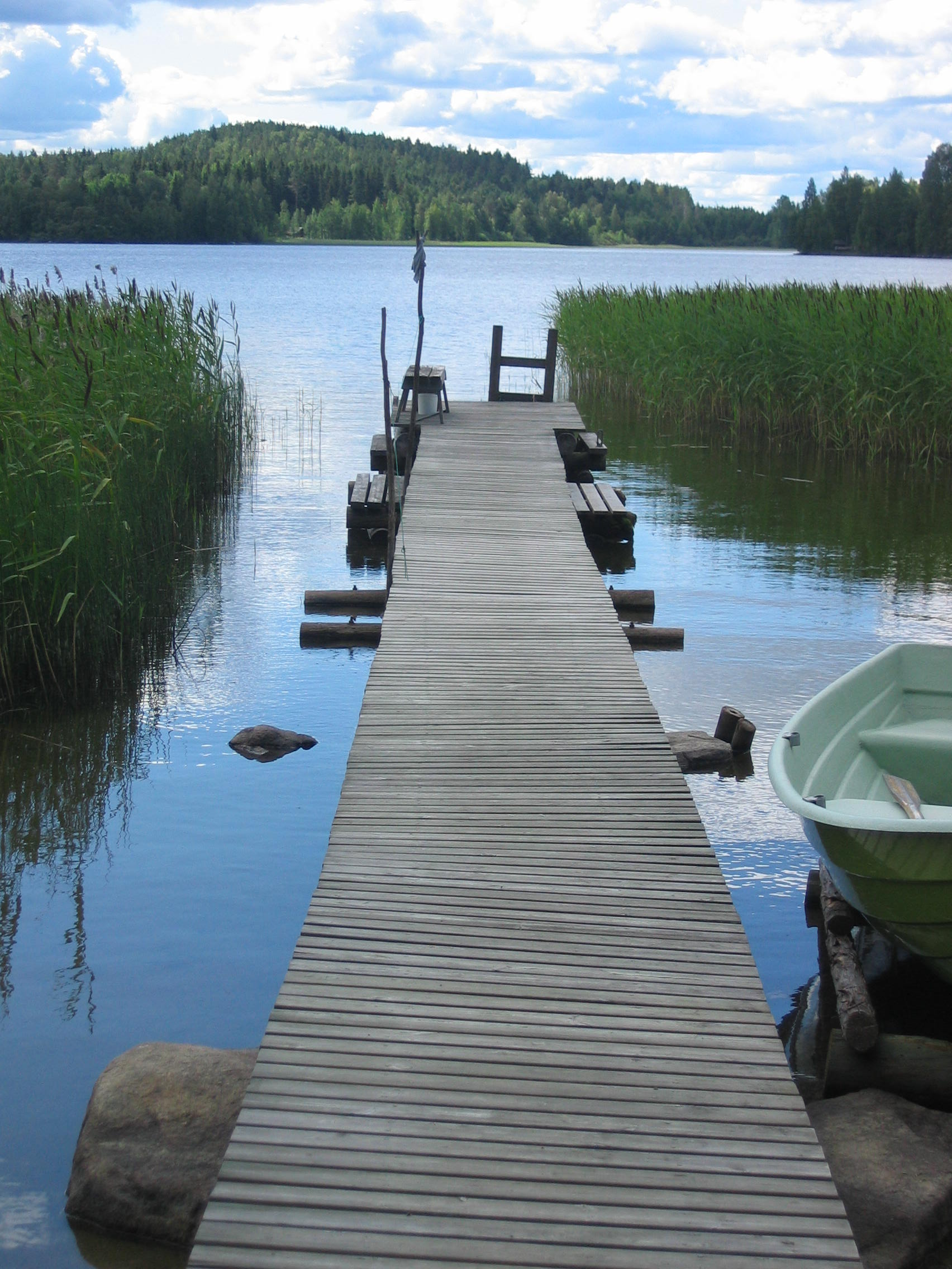 A self-made dock of a summer cottage at a lake in Simpele, Rautjärvi, Finland